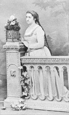 Italian operatic soprano Maria Spezia-Aldighieri "Marietta Spezia". Published between 1890-01-01 and 1900-12-31.